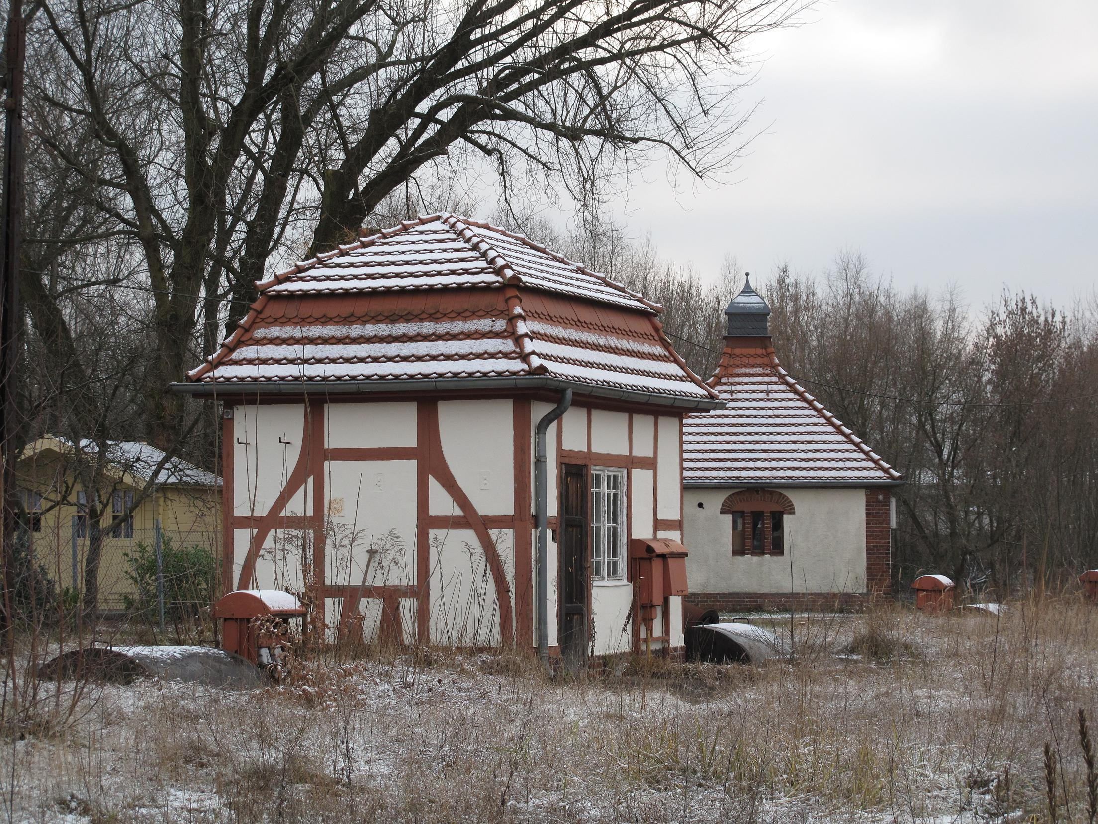 Winch-house of the slipway, built in 1906/07, and oil-house (in the background), built in 1905 at the Teltow-Werft (shipyard). The Teltow-Werft in Berlin-Zehlendorf has emerged in 1924 from the building yard and its harbour, which were opened in 1906 especially for the maintenance of the tow-locomotives and for the supply of the Teltowkanal (canal). The shipyard was closed in 1962. The harbour and most of the buildings, mainly built according to plans by the engineering office Havestadt & Contag, are listed today – including these two buildings.